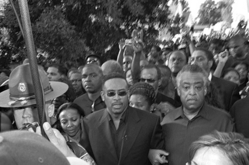 Talk show host Michael Baisden and the Rev. Al Sharpton at the front of the Sept. 20th march on Jena, Louisiana.